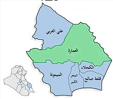 Maysan Map